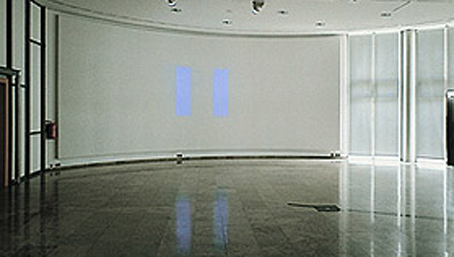 Site-specific artwork of Charly Steiger, realised at the Rüsselsheim townhall 1994